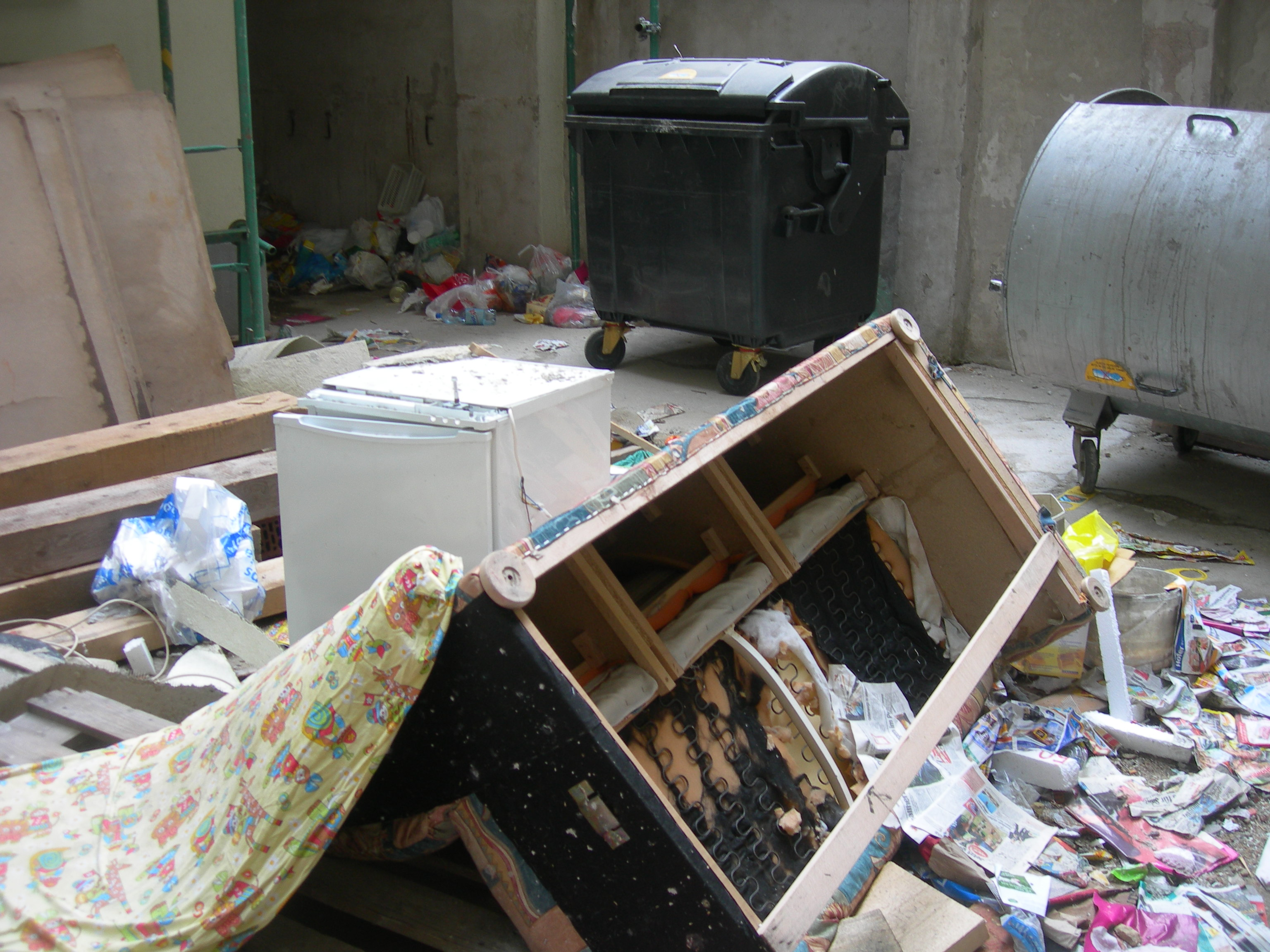 trash in the courtyard of a Residence in Vienna